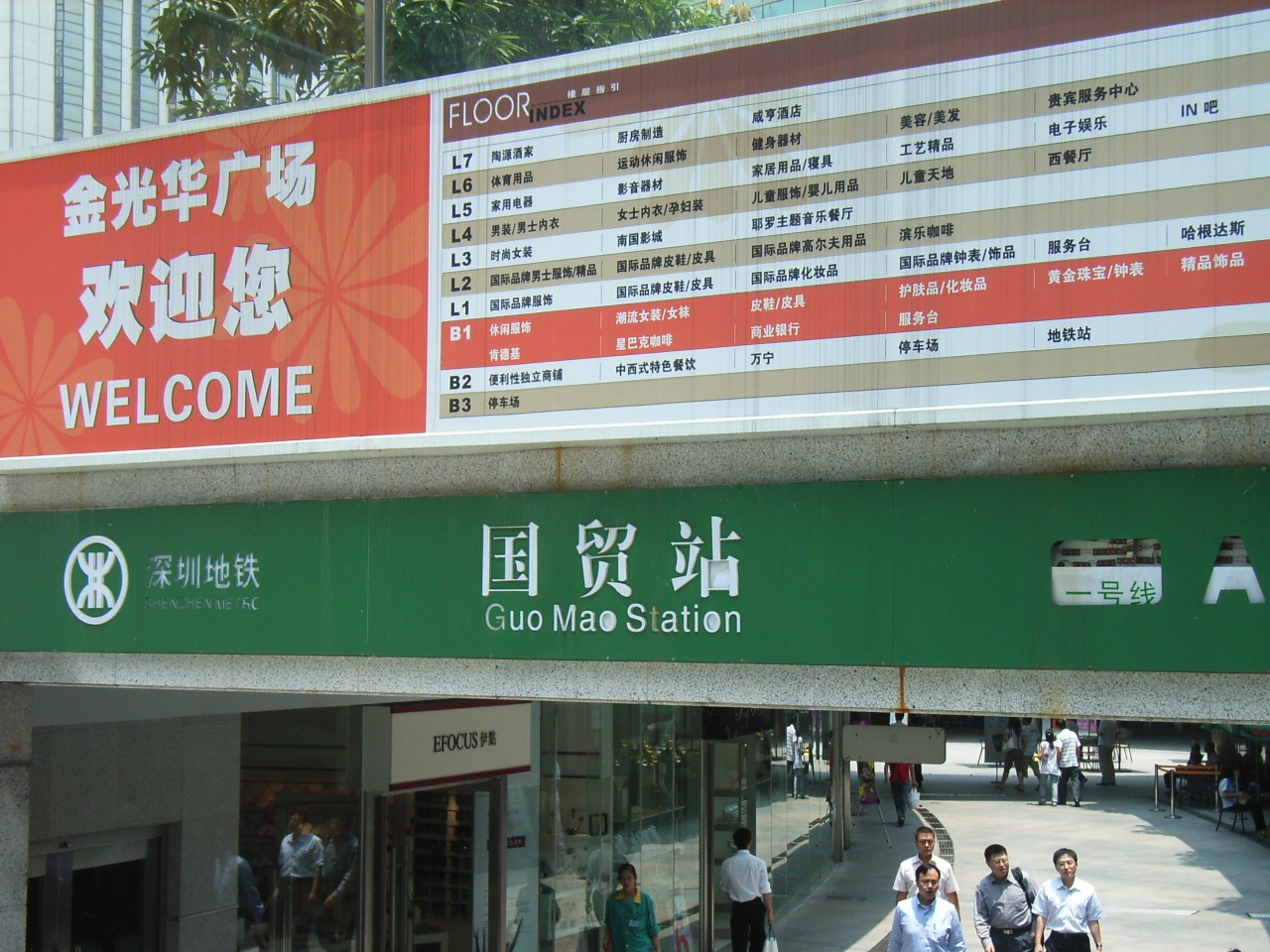 深圳地鐵 沿線各站風景Shenzhen, China (Author is SAMZ).